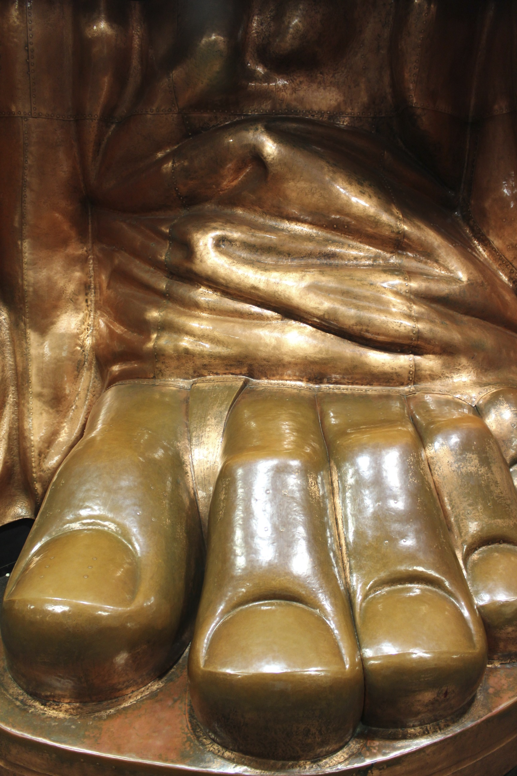 A replica copper foot made from the same mould of the Statue of Liberties foot during a restoration.